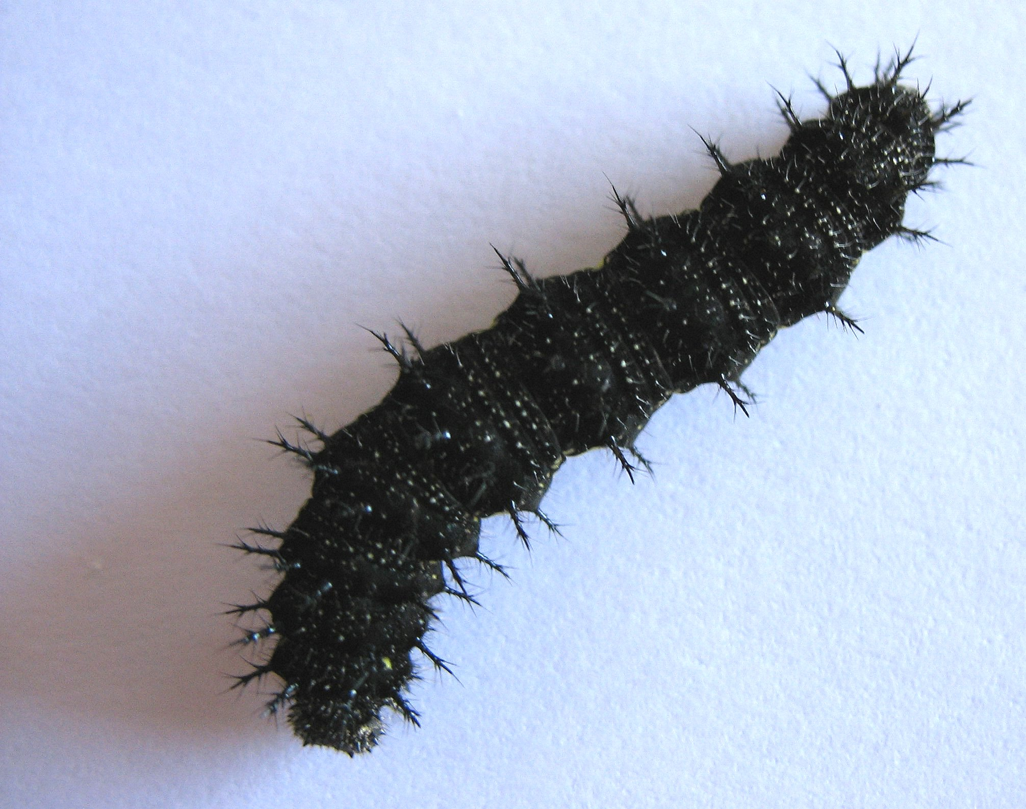 Butterfly Vulcan (Vanessa atalanta), larva form (caterpillar).